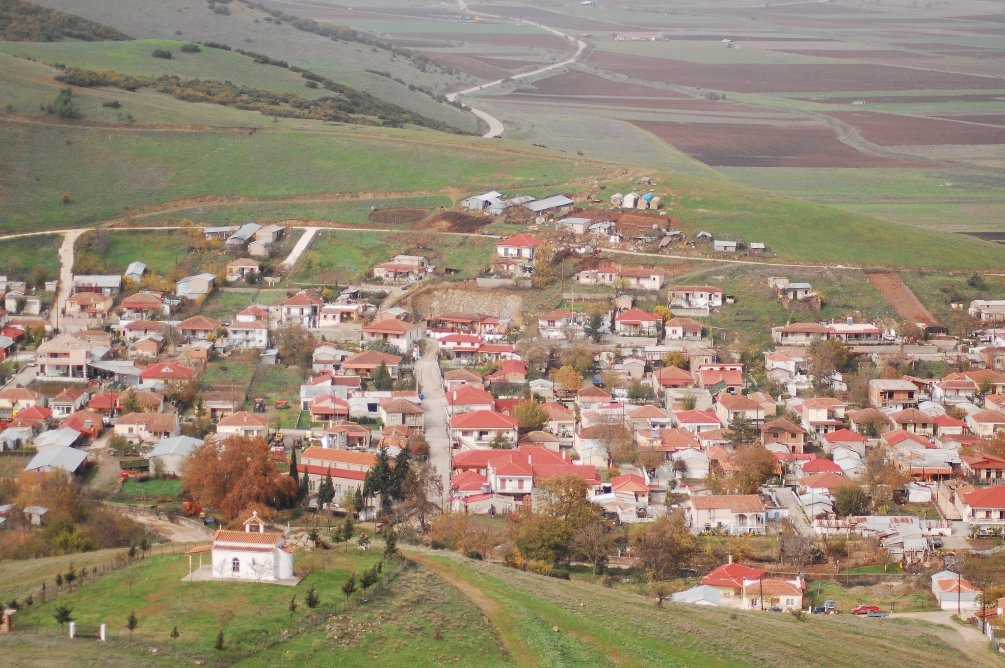 Perivoli Domokou